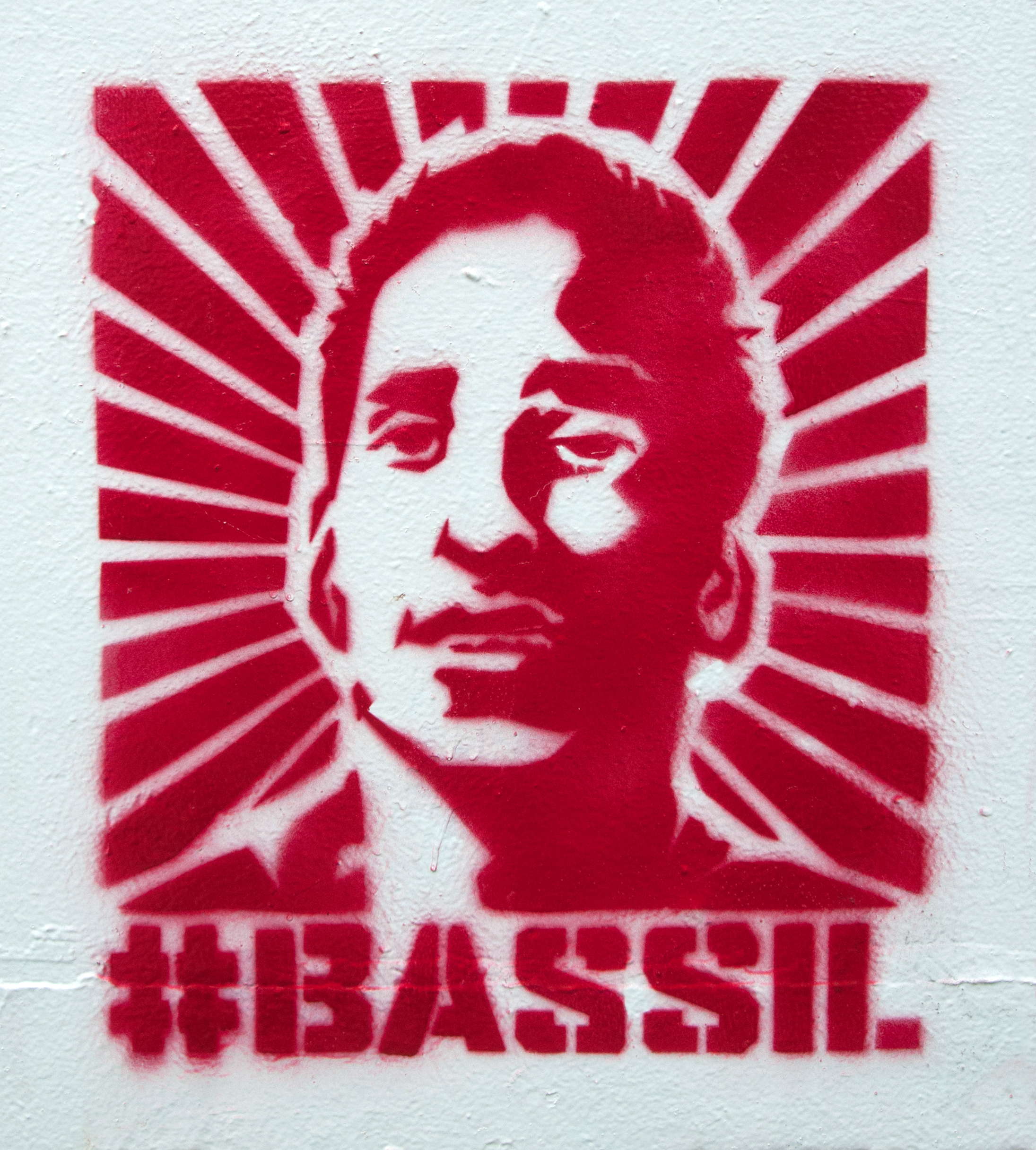 Banner at demonstrations and protests against Chavismo and Nicolas Maduro government